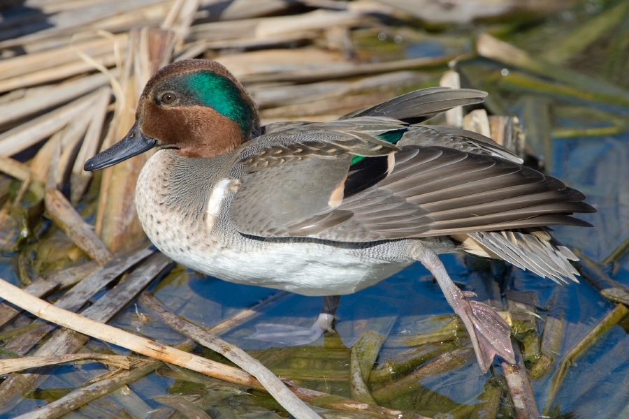 Green-winged Teal Anas carolinensis, Birding Center, Port Aransas, Texas